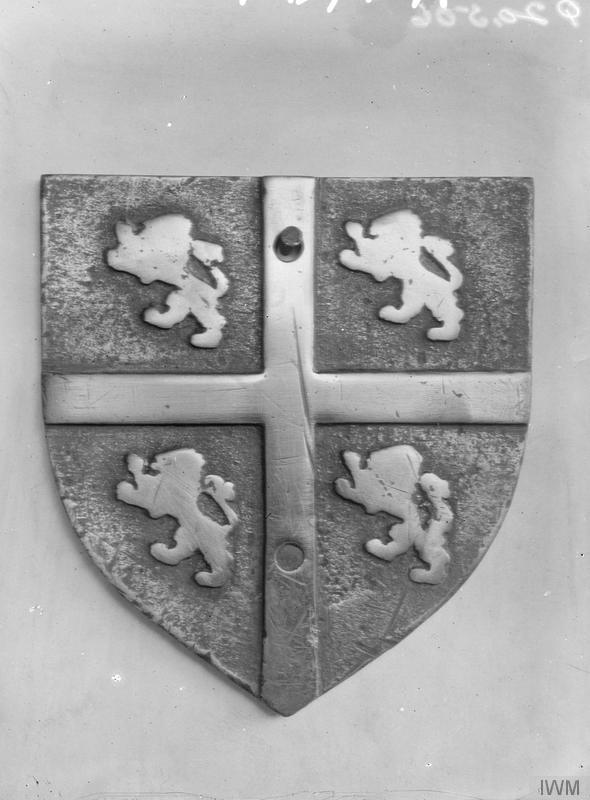 The Collections of the Imperial War Museum The ship badge of HMS Torpedo Boat 114.